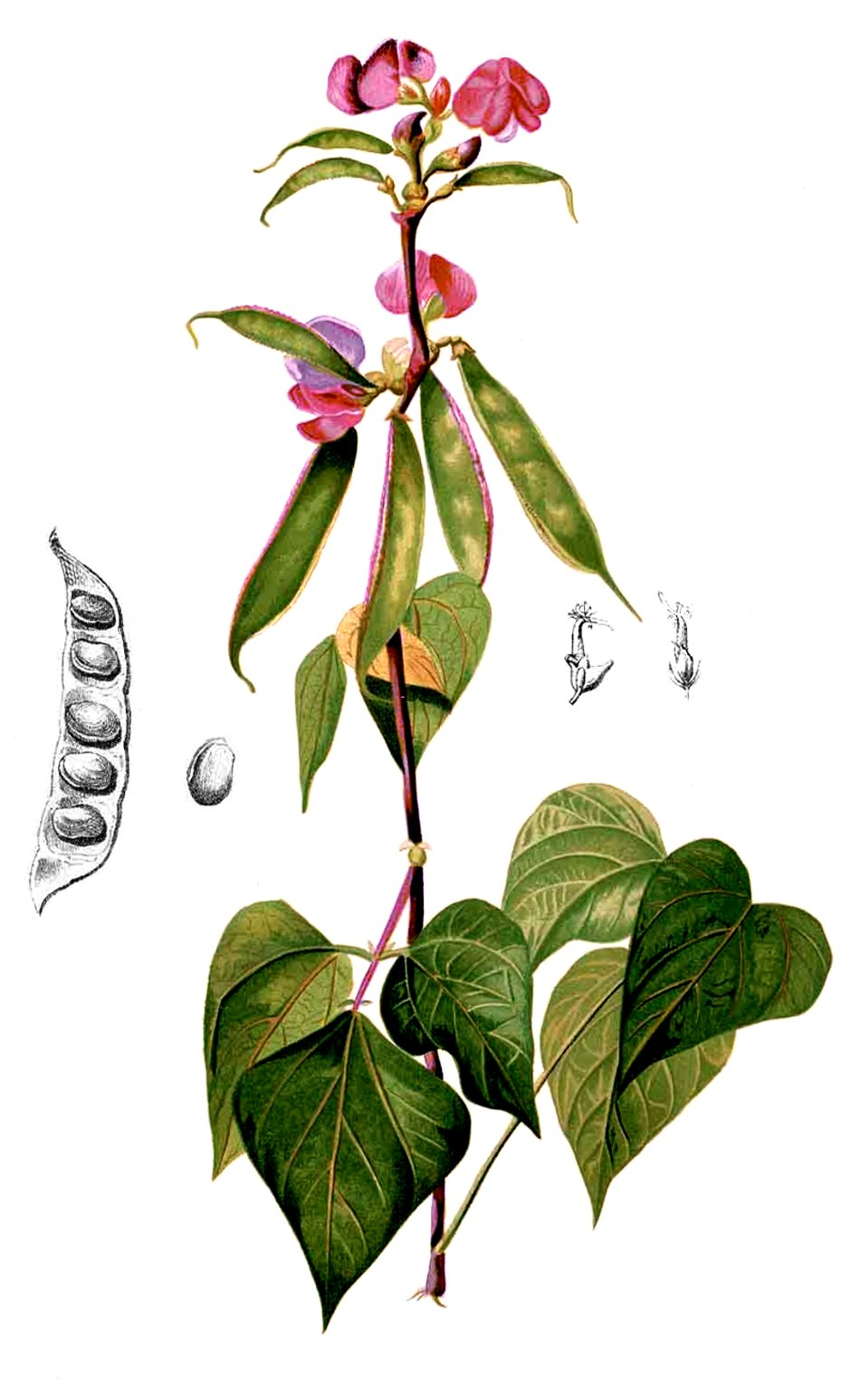 Plate from book